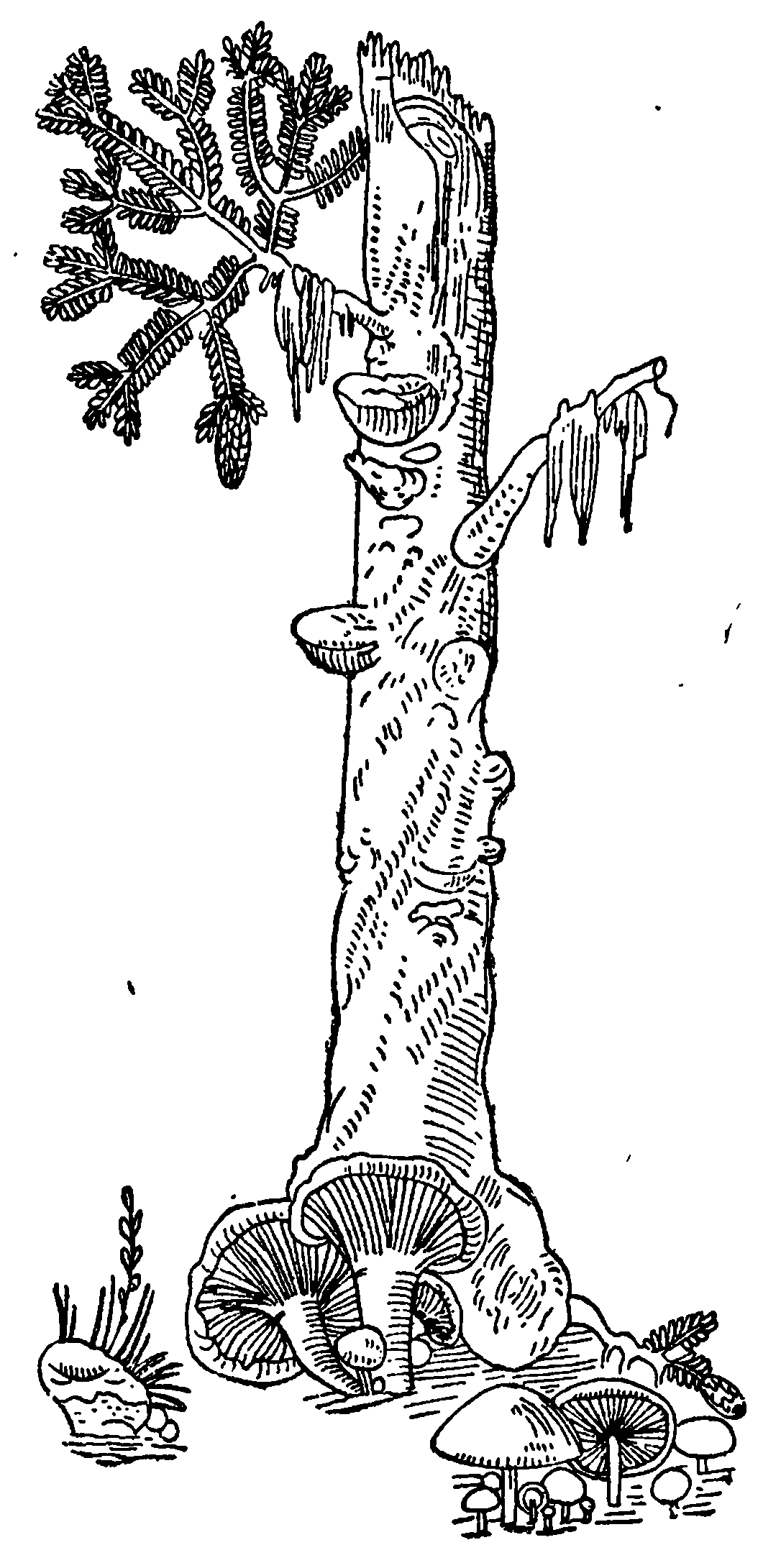 Fungi image from „Herbal“ by Hieronymus Bock